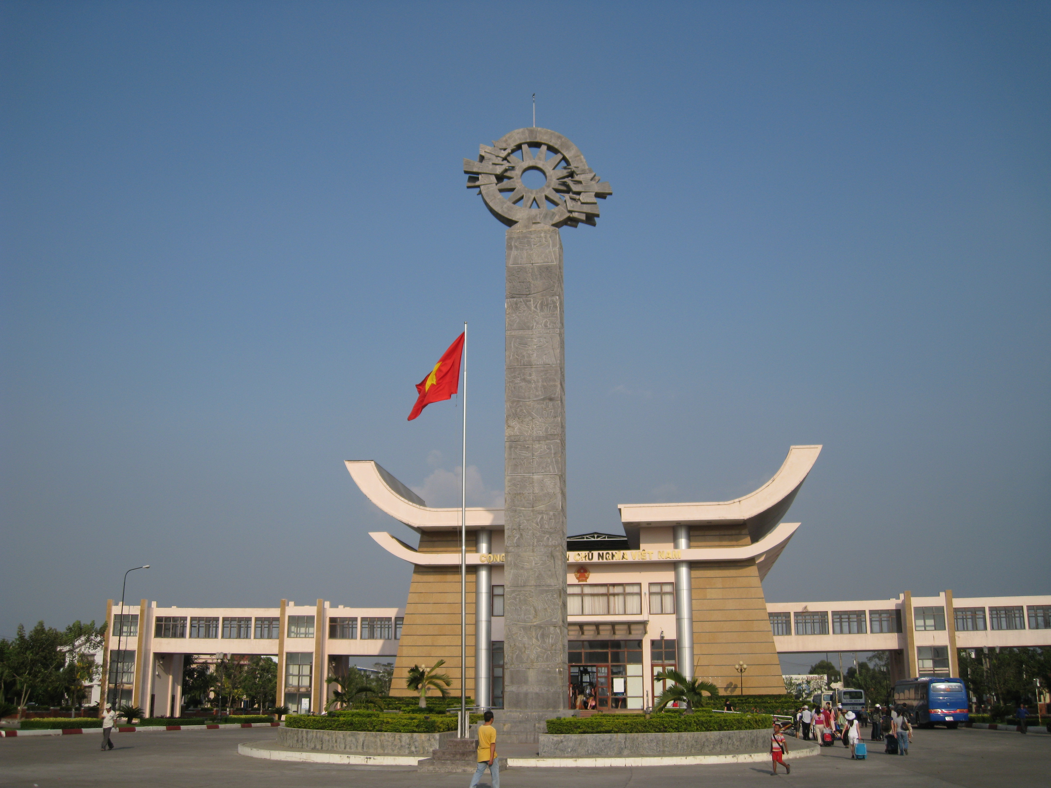 Mộc Bài border.